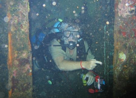 Superior Producer, The cabbin at 25 meters